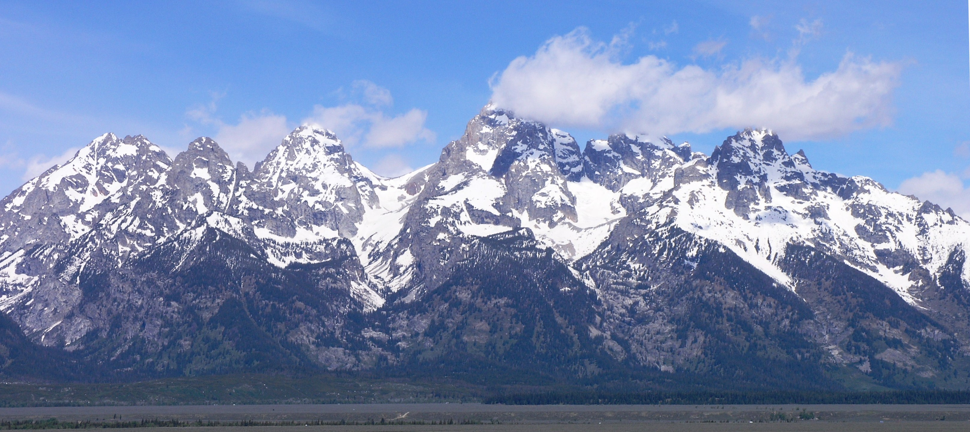 Photo in or around Grand Teton National Park